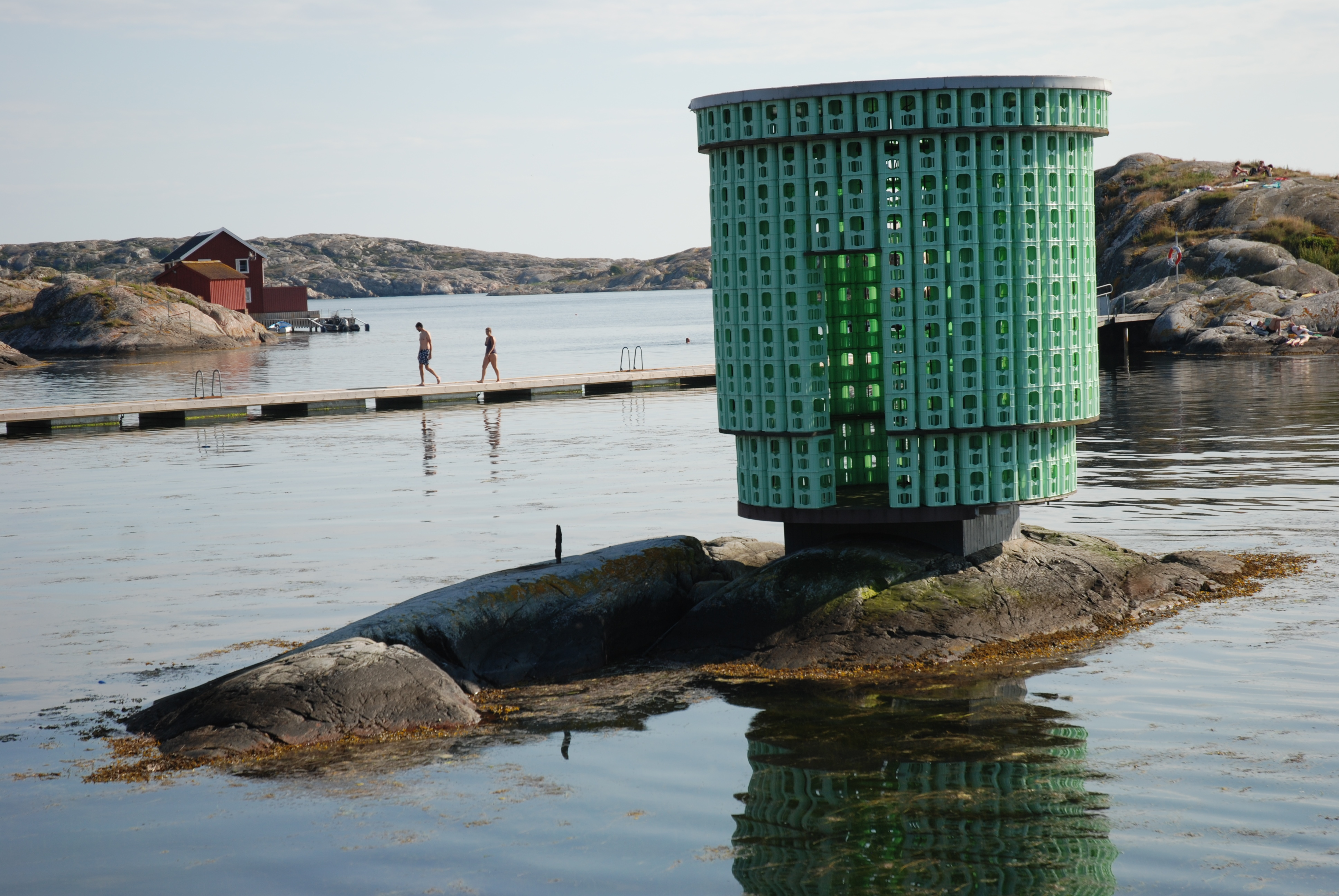 Project Lighthouse by Winter Hörbell (Wolfgang Winter and Bertholdt Hörbell) in Skärhamn, Sweden. The artwork consists of 500 green plastic cases för German mineral water bottles. Diameter 4.5 meter, height 4 meter.